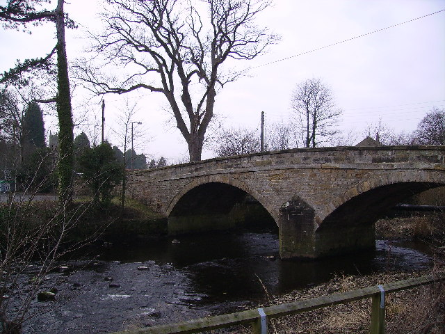 River Wenning. Bridge near Punch Bowl Hotel